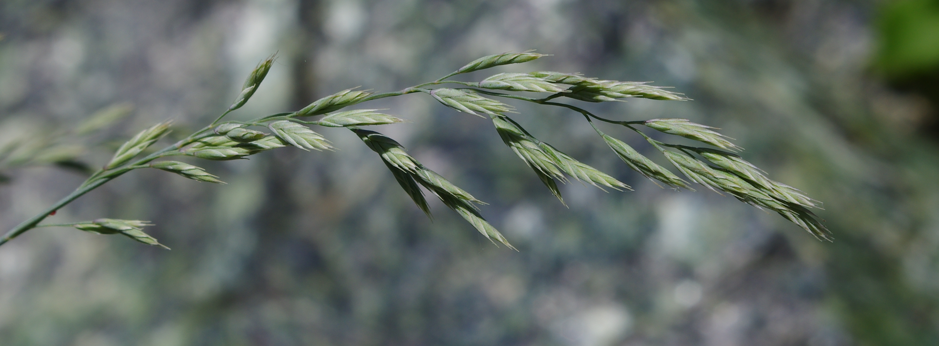 Festuca scoparia var. serpentina at the ÖBG Bayreuth